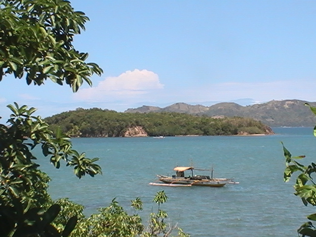 Offshore island of Concepcion, Iloilo